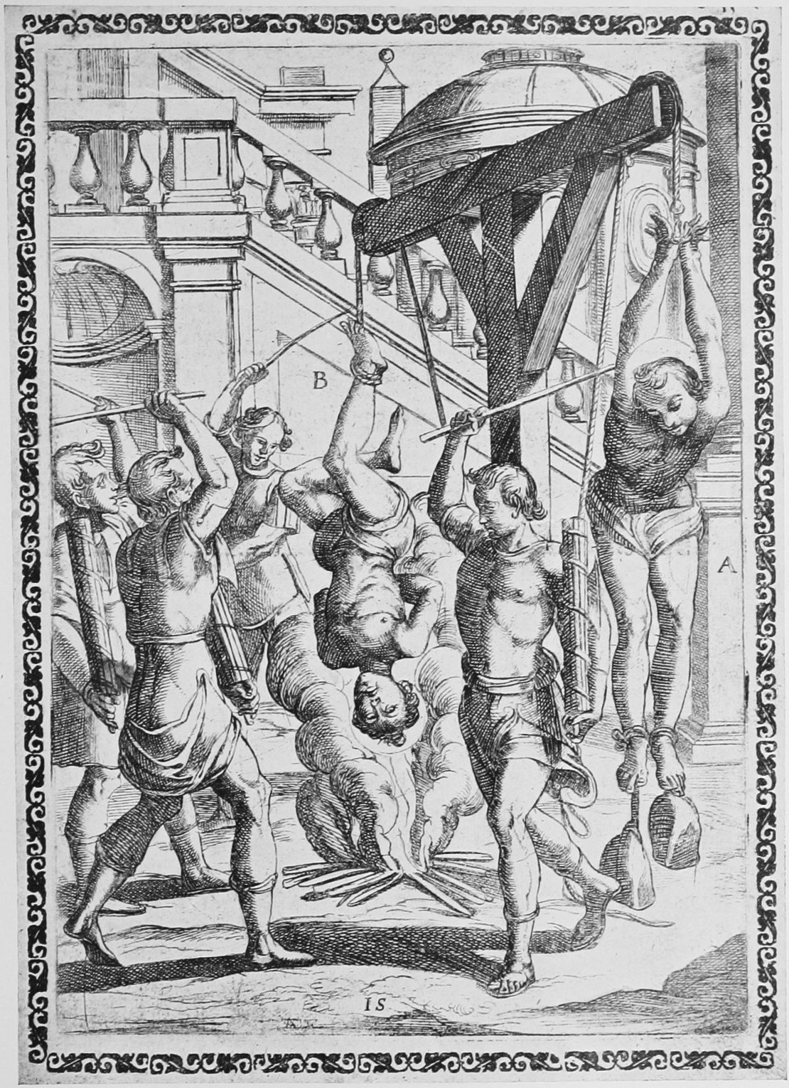 Woodcut by Tempesta showing a torture/execution scene of martyrs from Gallonio's "Tortures and Torments of the Christian Martyrs"